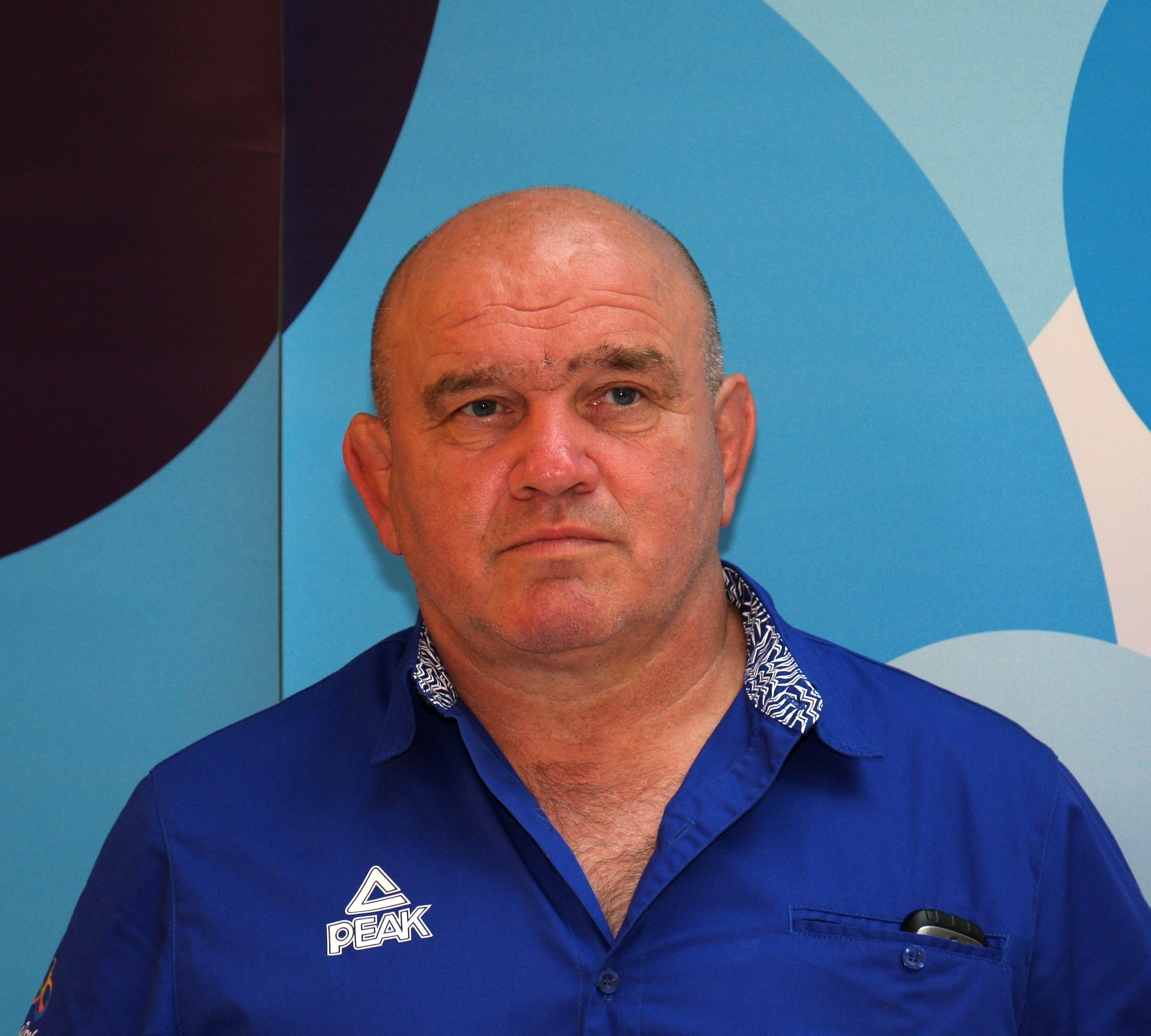 Slovene judoka Marjan Fabjan on a promotional event in Ljubljana.